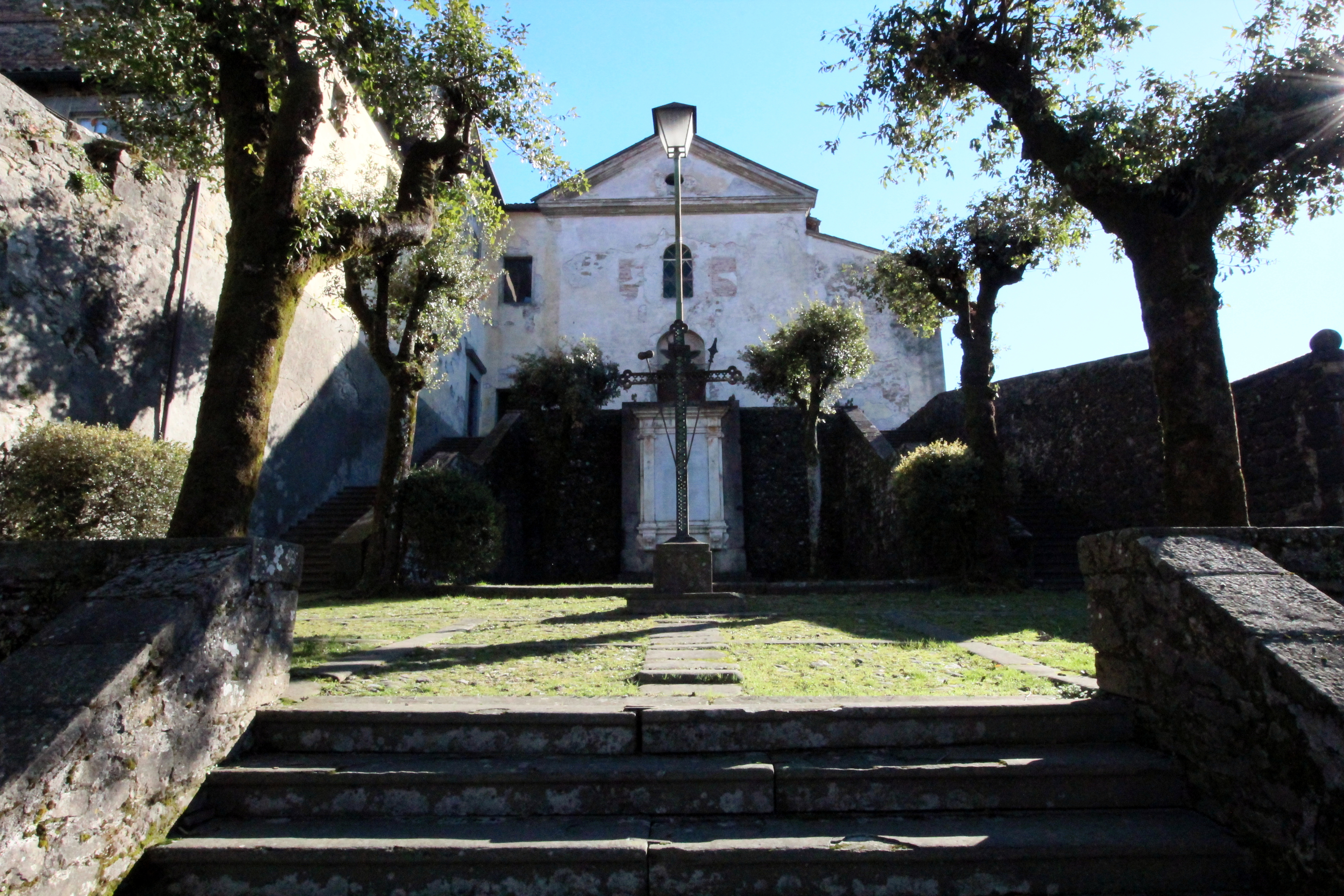 Convent/Monastery Convento dei Cappuccini, Castelnuovo di Garfagnana, Province of Lucca, Tuscany, Italy